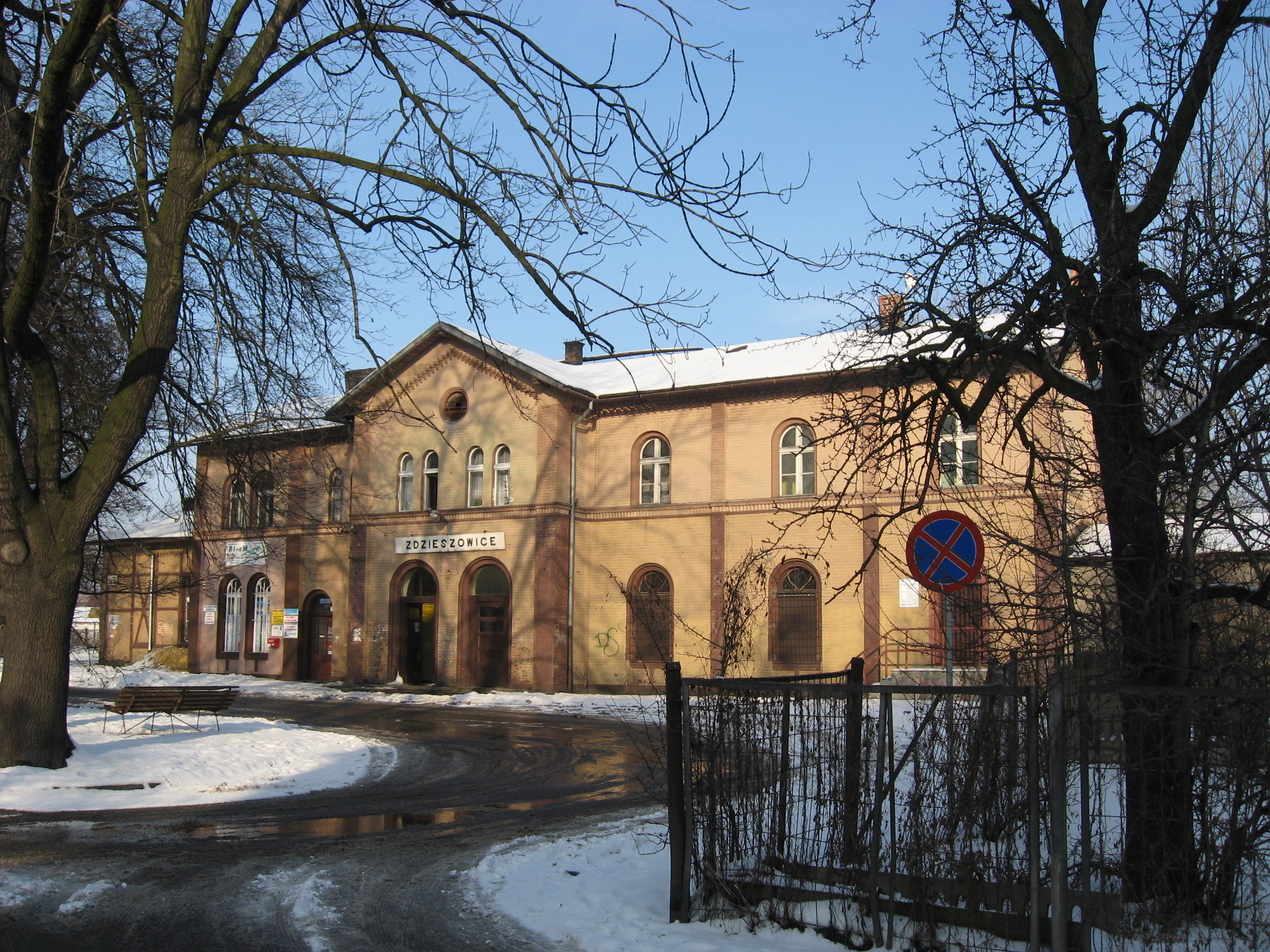 Railway Station Zdzieszowice